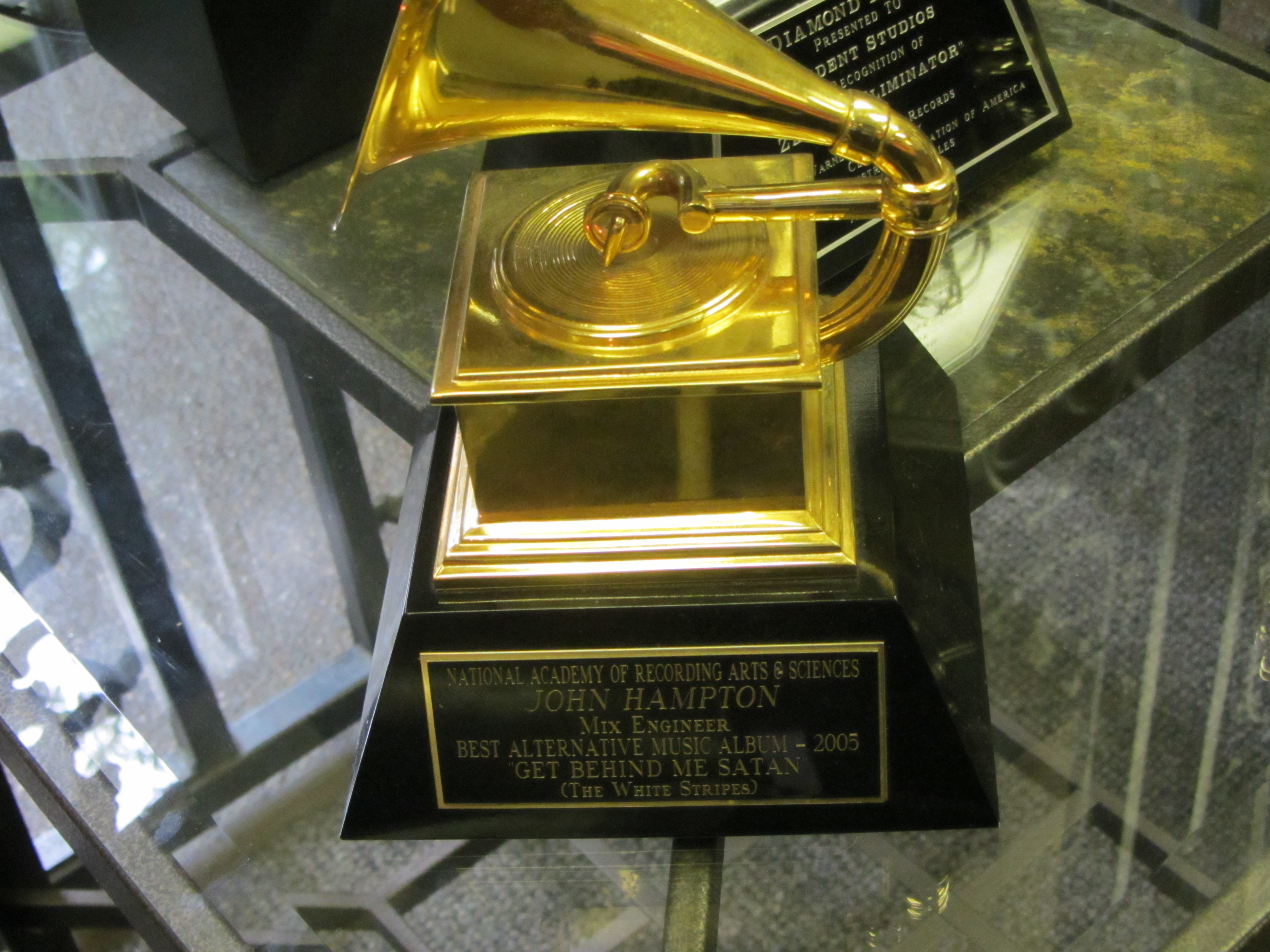 Grammy Awards, Best Alternative Music Album - 2005, John Hampton (mix engineer) "Get Behind Me Satan" (The White Stripes) National Academy of Recording Arts & Sciences John Hampton Mix Engineer Best Alternative Music Album - 2005 Get Behind Me Satan (The White Stripes)